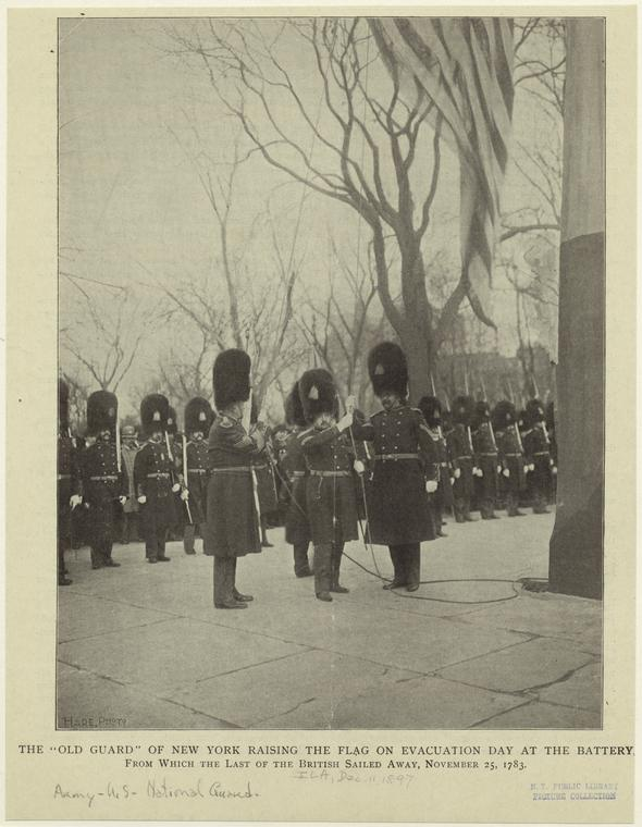 Image Title: The "Old Guard" of New York raising the flag on Evacuation Day at the Battery, from which the last of the British sailed away, November 25, 1783. Evacuation Day Creator: Hare, James H., 1856-1946 -- Photographer Published Date: 1897 Specific Material Type: Prints Item Physical Description: 1 photographic print : b&w ; 24 x 19 cm. (9 1/2 x 7 1/4 in.) Notes: Written on border: "Dec. 11, 1897." Original Source: From Illustrated American. (New York : Lorillard Spencer, 1890-1900) .